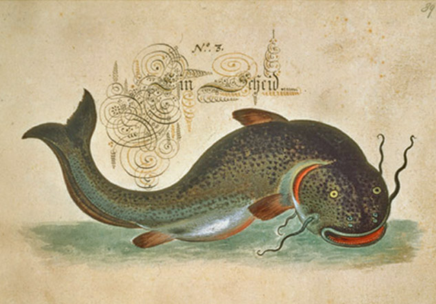 Drawing of Leonardo Baldner (= Leonhard Baldner), (1612-1694), dated 1666 representing a catfish (Silurus glanis) ; Baldner was a renowned naturalist in his time, and drawer of animals. His drawings were generally finely observed and faithfully colored. Baldner observed this catfish on the fish market in Strasbourg. At this time, this species of catfish were absent or very rare in the Rhine basin, but present in Switzerland and in northern and central Europe, and in a slightly brackish lake in the Netherlands, probably already reintroduced by man (eg in Switzerland) in Middle Ages (It is assumed not to have supported the last ice ages. glaciations). This drawing was published with other drawings of the regional fauna. Note: The tail appears to have been "corrected" on the drawing to make bifurcated (catfish has not actually this type of caudal fin).